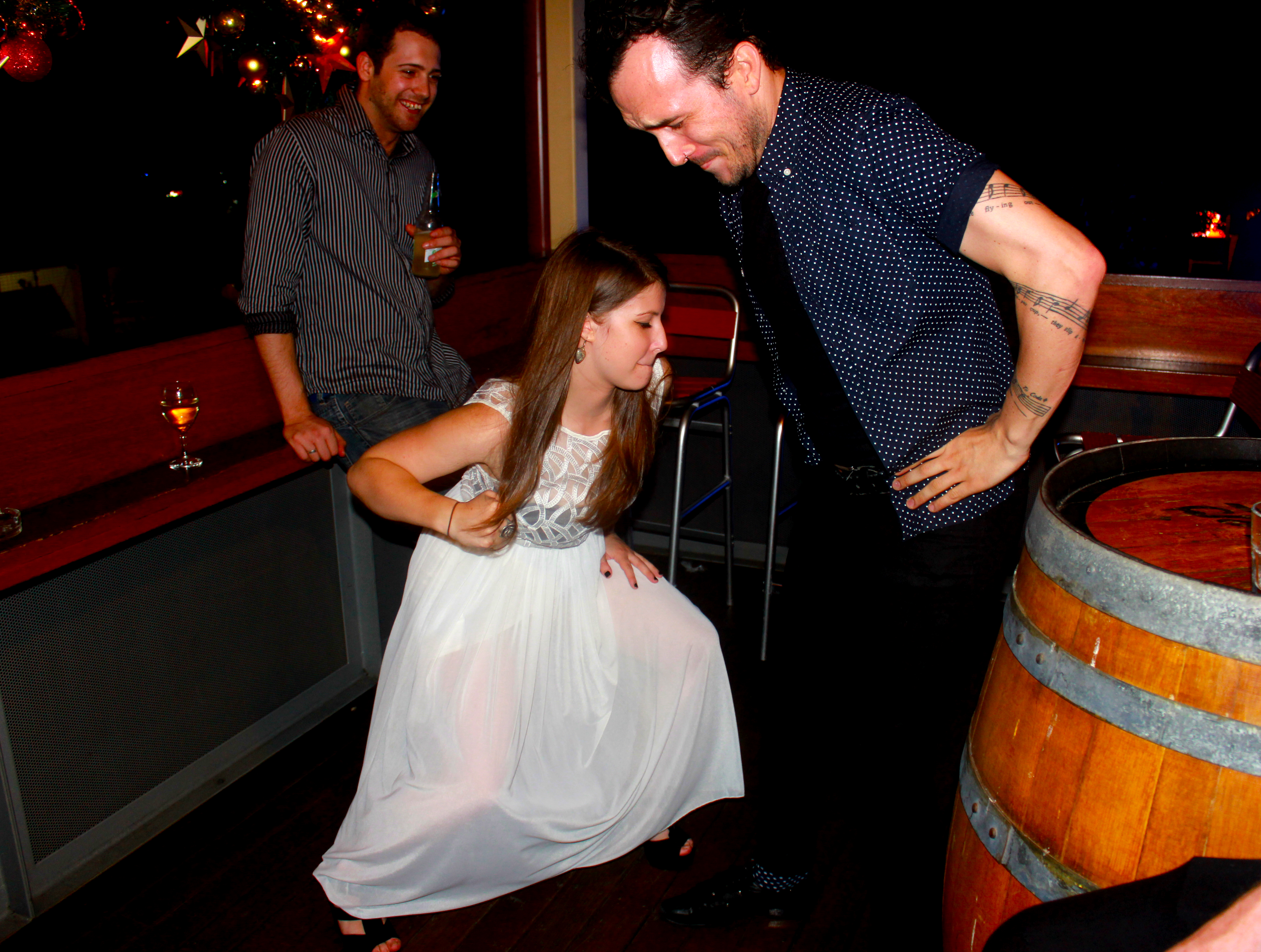 A woman aiming a punch to the testicles.